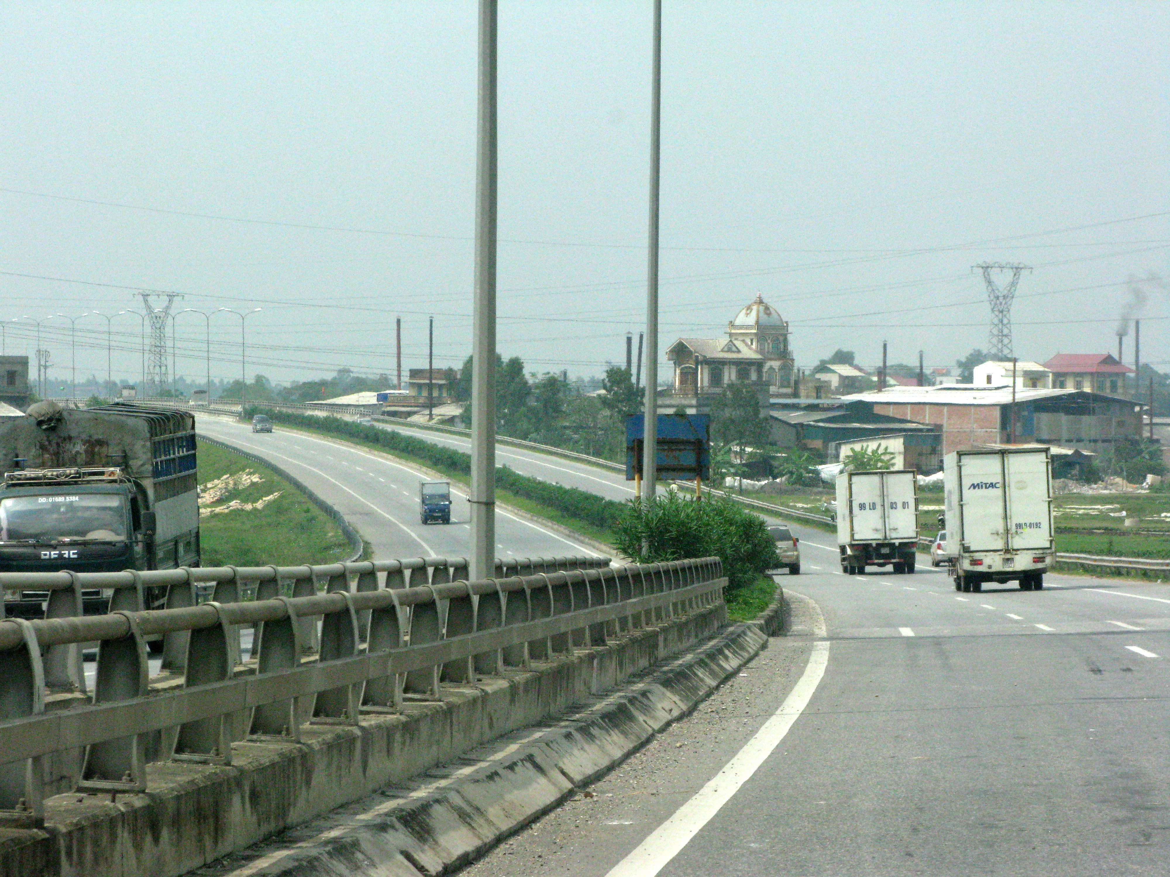 Nội Bài-Bắc Ninh Expressway (National Highway 18), Việt Nam